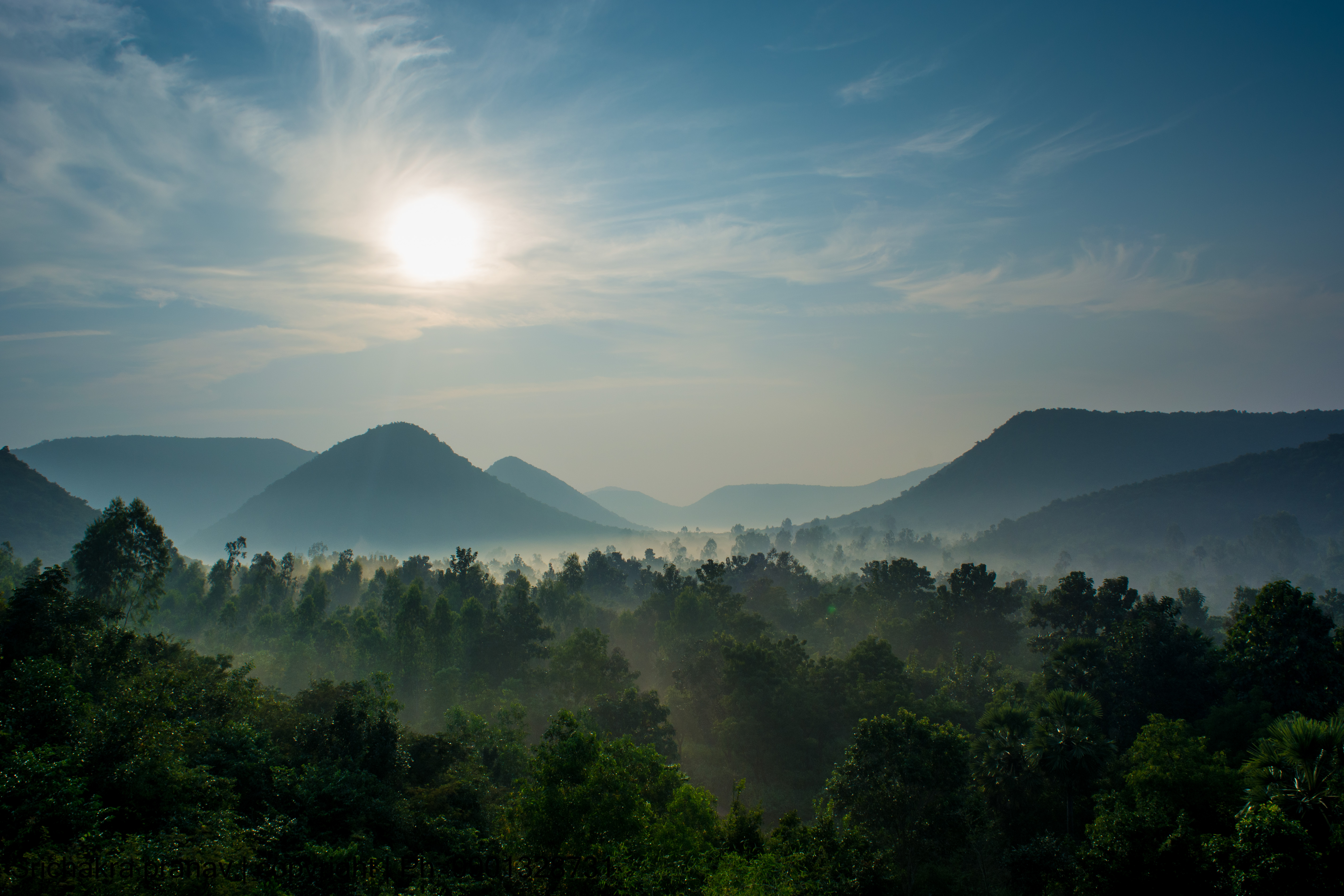 This is a Landscape photograph of kambalakonda wildlife sanctuary after sunrise. Beautiful foggy morning can be observed.